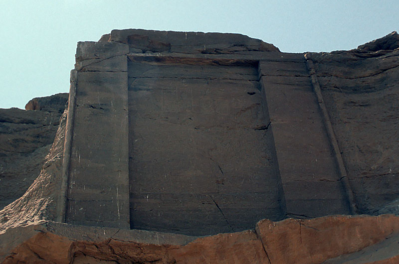 Stela of Amenophis IV before Amun-Ra, east bank, Gebel el-Silsila (see Porter/Moss, vol. 5, p. 220; Lepsius Text IV, p. 97, Lepsius III 110 i.)